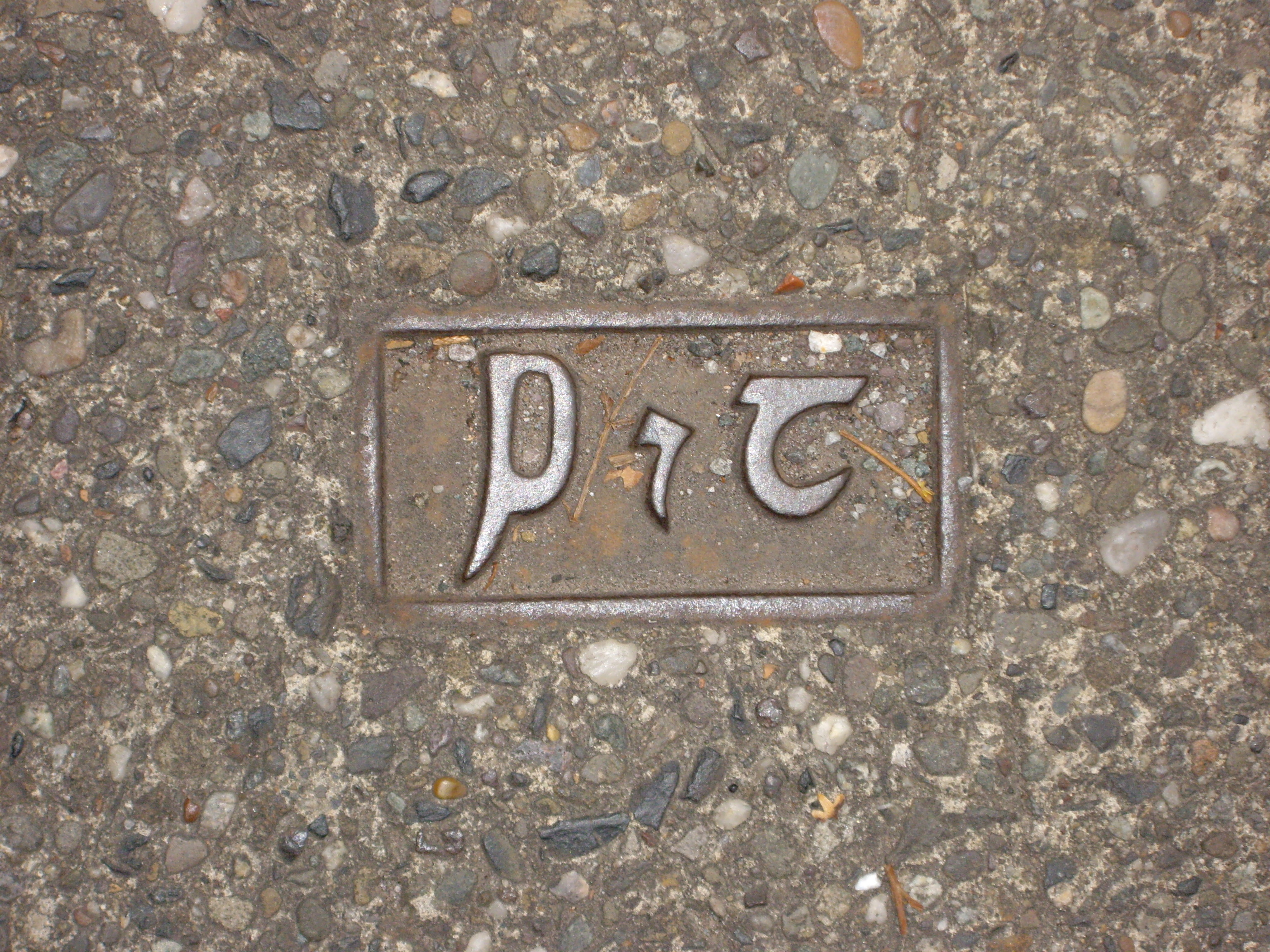 Telecom manhole cover in Cork, dating to pre-1984 when the old "P&T" was split Telecom Éireann and An Post.